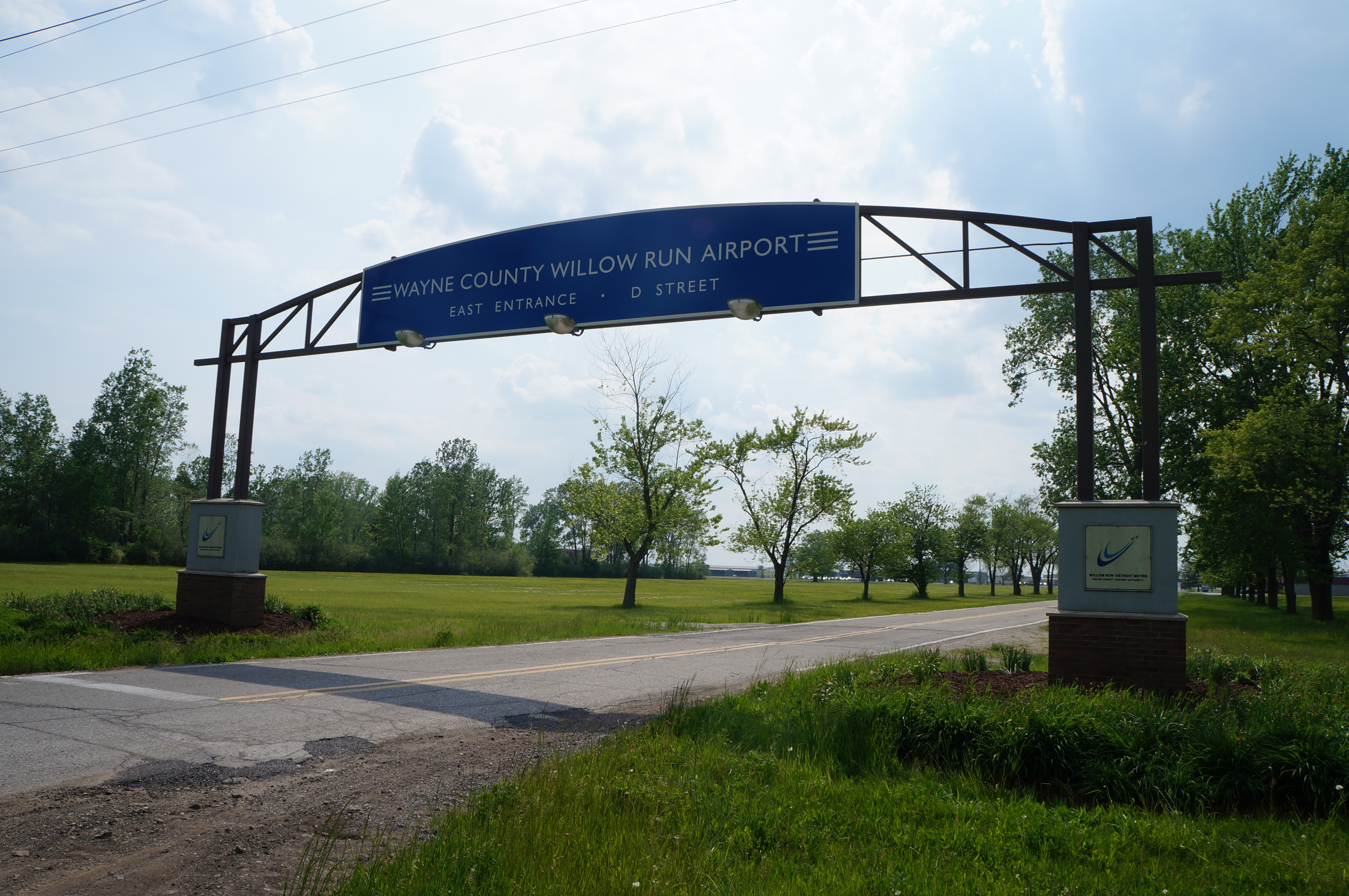 Willow Run Airport - Van Buren Charter Township Entrance